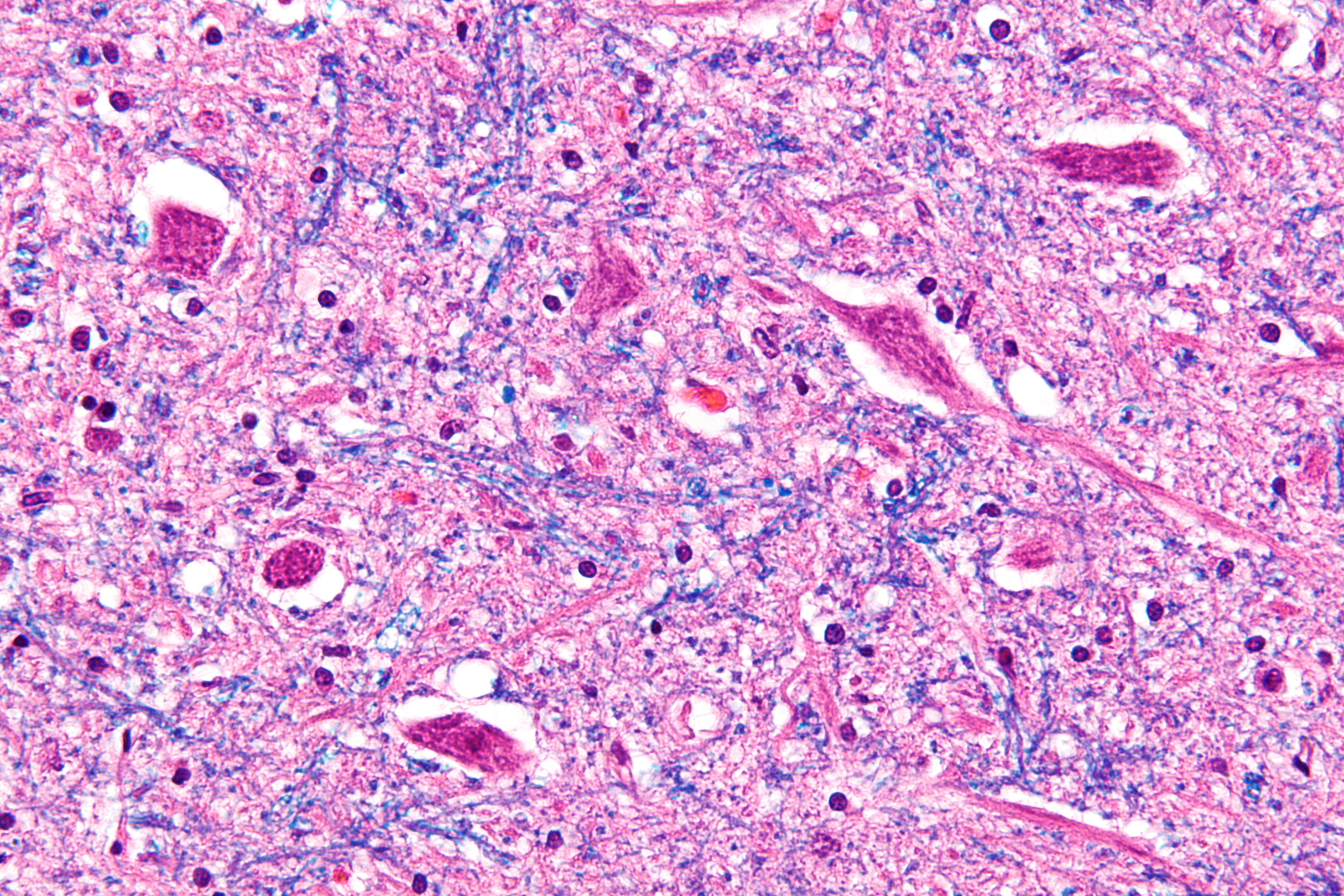 Very high magnification micrograph of the medulla oblongata showing the fourth ventricle and the nuclei of the hypoglossal nerve and vagus nerve. H&E-LFB stain. Related images Very low mag. Low mag. Intermed. mag. CN X nuc. High mag. CN X nuc. Intermed. mag. CN XII nuc. High mag. CN XII nuc. Very high mag. CN XII nuc.